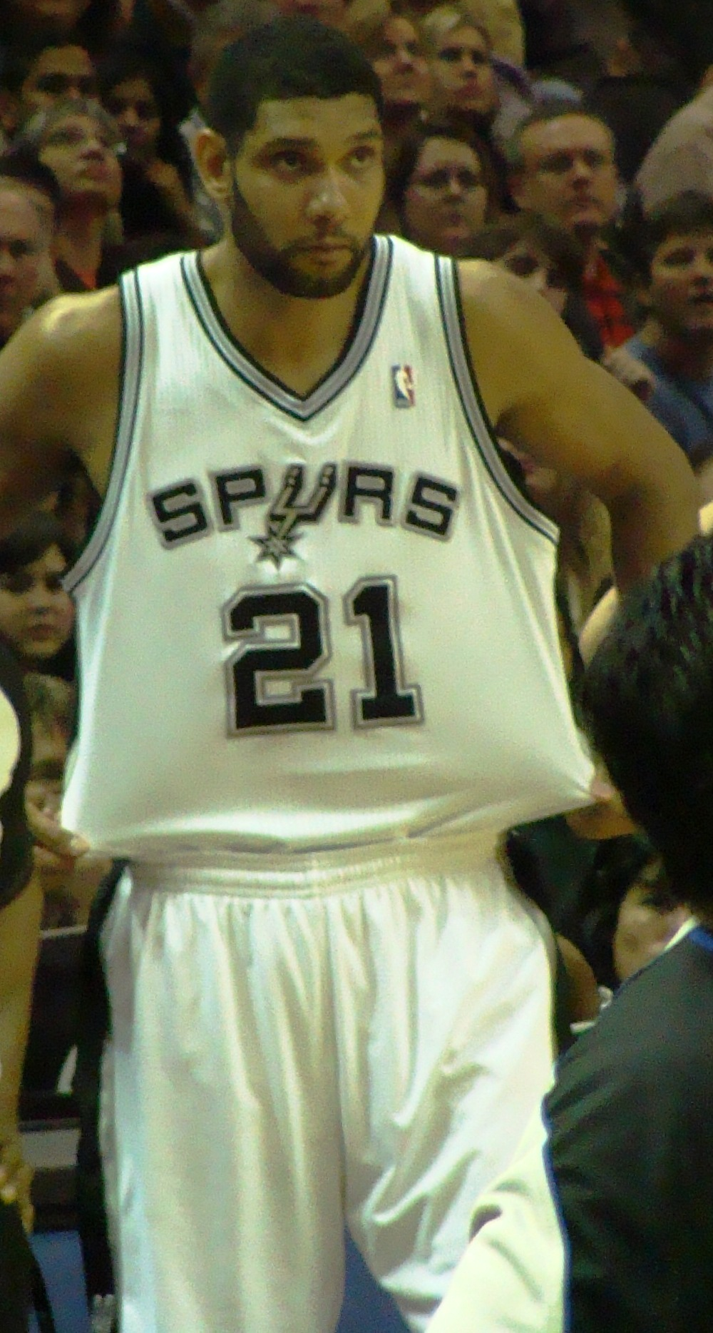 Tim Duncan of the San Antonio Spurs, during the Spurs-Nuggets match on 12-22-2010 in San Antonio, TX.